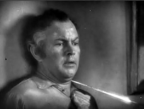 Sidney Blackmer as Fernand Mondego in a 1934 re-issue trailer for The Count of Monte Cristo. Trailers from before 1964 are inthe public domain.